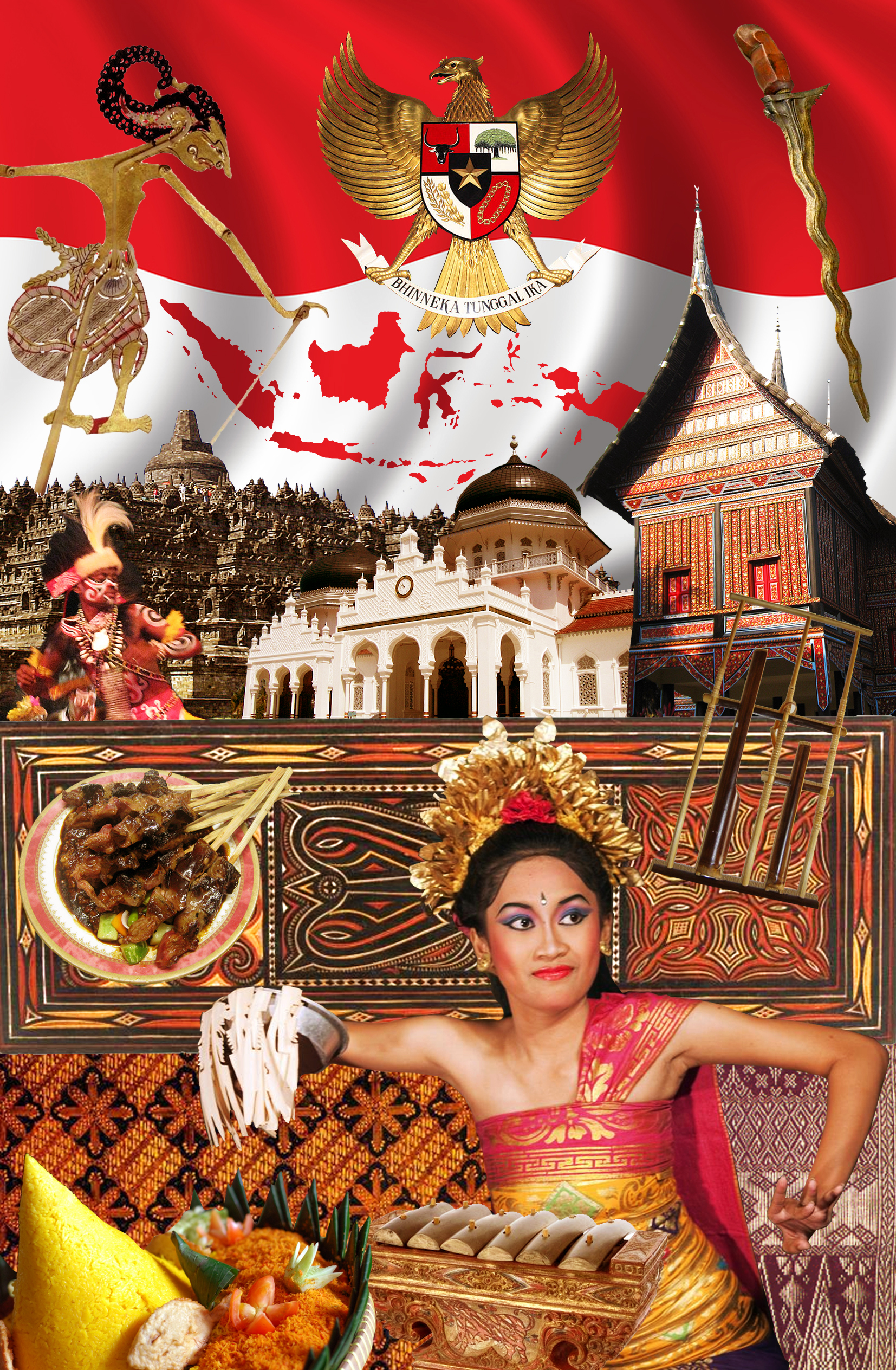 Multiple aspects of Indonesian culture and Indonesian symbols. From Top to bottom left to right. Red and white Indonesian flag as background, wayang kulit depicting Arjuna, Garuda Pancasila Indonesian national emblem, Kris blade from Java, Nusantara or the map of Indonesian archipelago, Borobudur Buddhist temple in Central Java, Papuan dance, Baiturrahman Mosque of Banda Aceh, Rumah Gadang Minangkabau traditional house, Torajan wooden carving as background, Satay one of Indonesian national dish, Angklung bamboo music from Sundanese West Java, Balinese Pendet dancer, Tumpeng cone shaped rice dish from Java, Gamelan, Batik and Songket textiles as background. The montage taken from images from Wikimedia Commons.